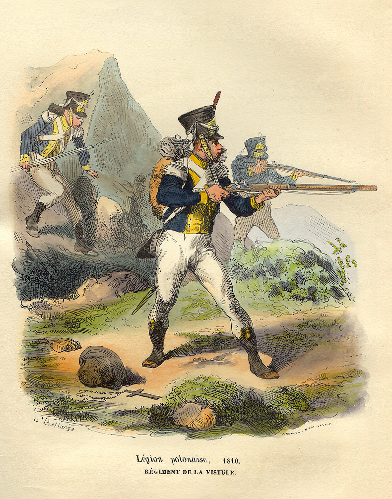 Polish soldiers from Napoleon's Polish Legion, Vistula regiment. From book of P.-M. Laurent de L`Ardeche «Histoire de Napoleon», 1843